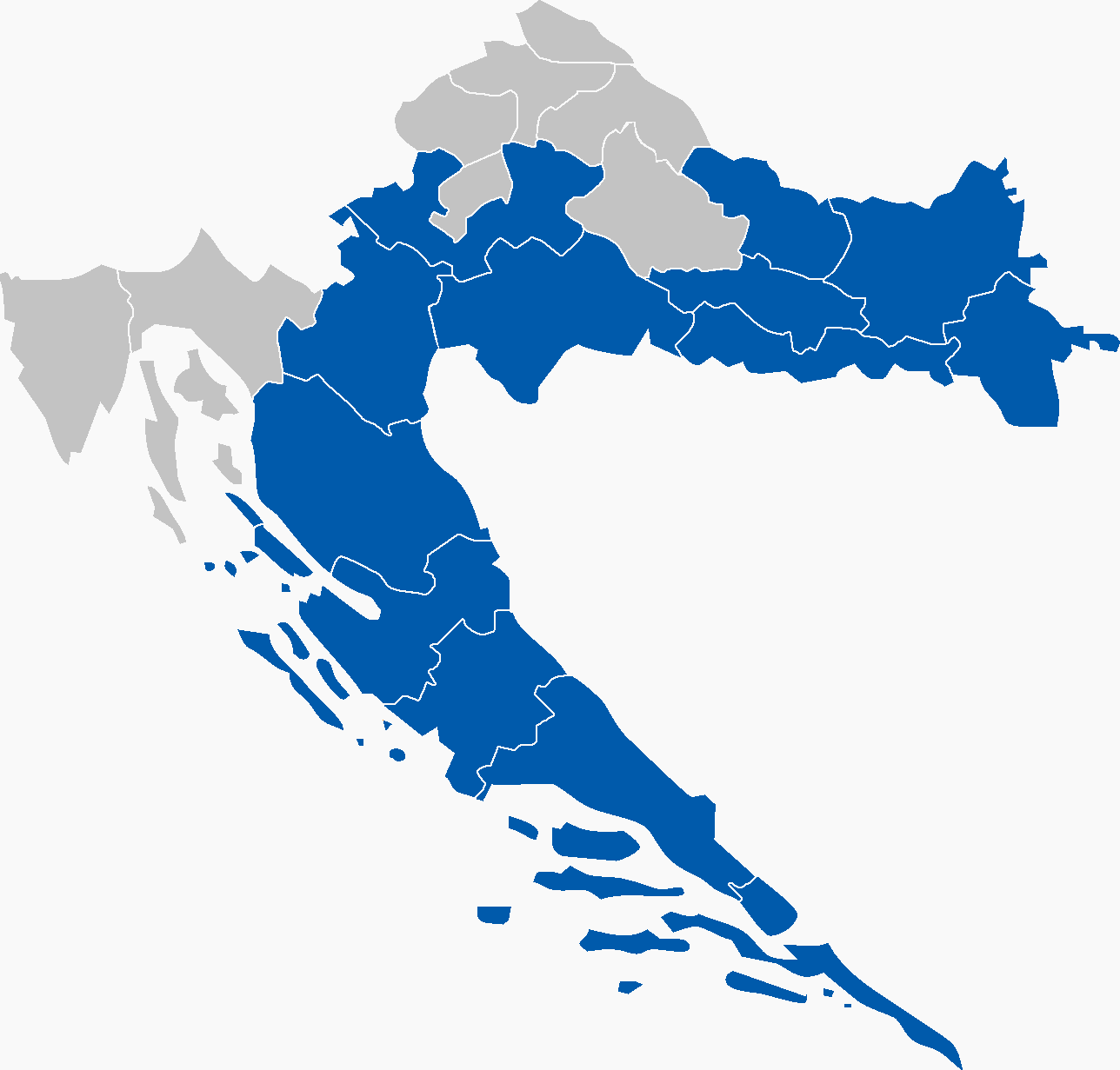 The results of the first round of the Croatian presidential election, 2014